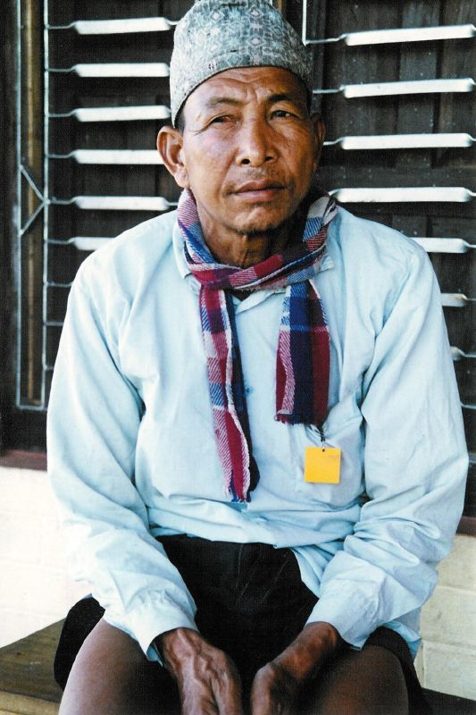 Tharu man in Nepal